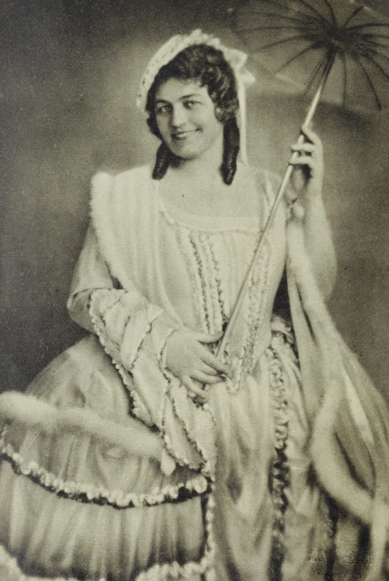 Viorica Ursuleac (1894 in Chernivtsi, Bukovina, Austrian Empire – 1985 in Ehrwald, Tyrol, Austria), as Fiordiligi. Salzburg Festival 1932.